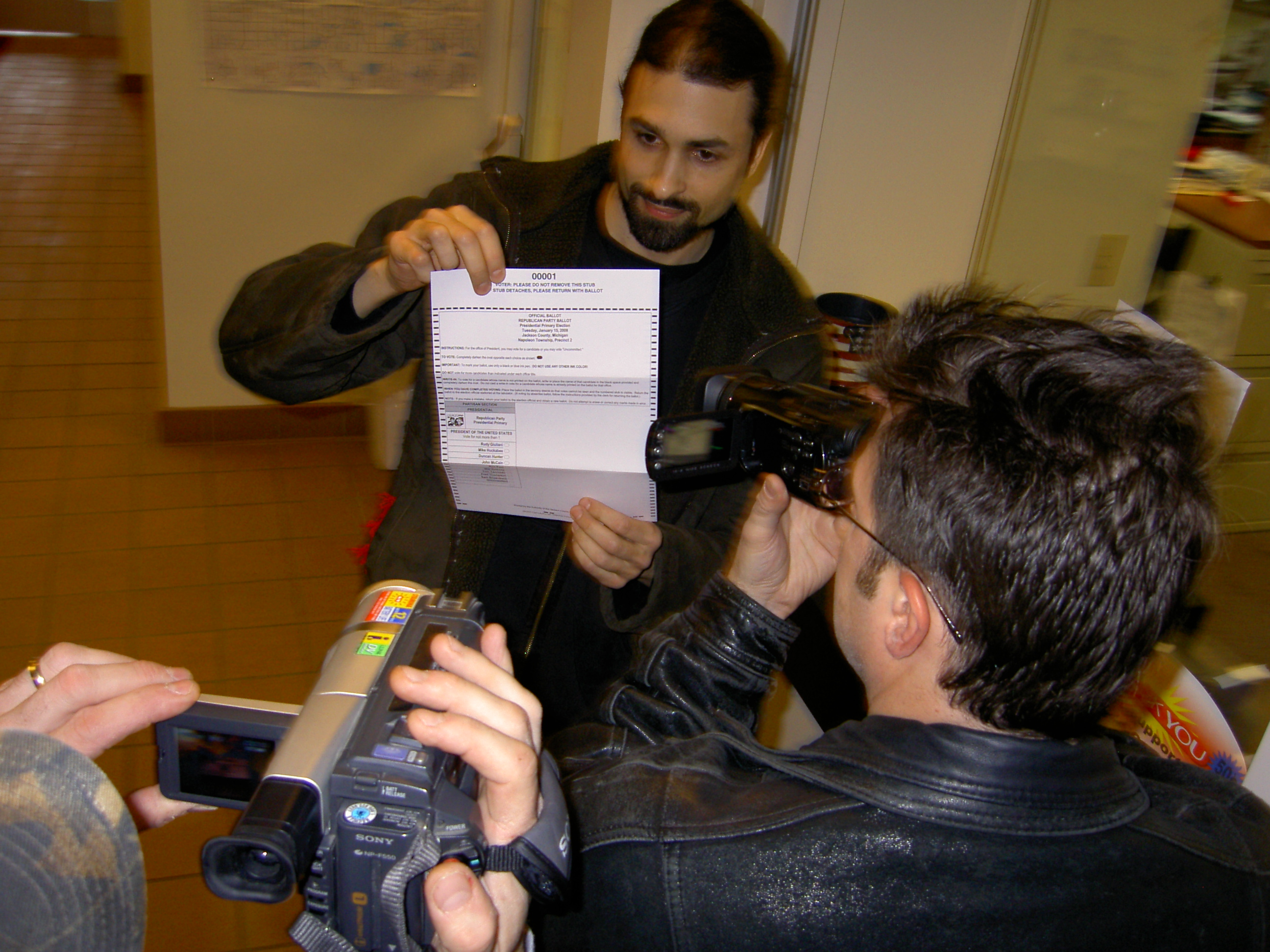 Voter displays a 2008 Michigan Republican Party primary ballot